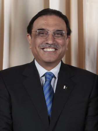 President Barack Obama and First Lady Michelle Obama pose for a photo during a reception at the Metropolitan Museum in New York with Asif Ali Zardari, President of the Islamic Republic of Pakistan.